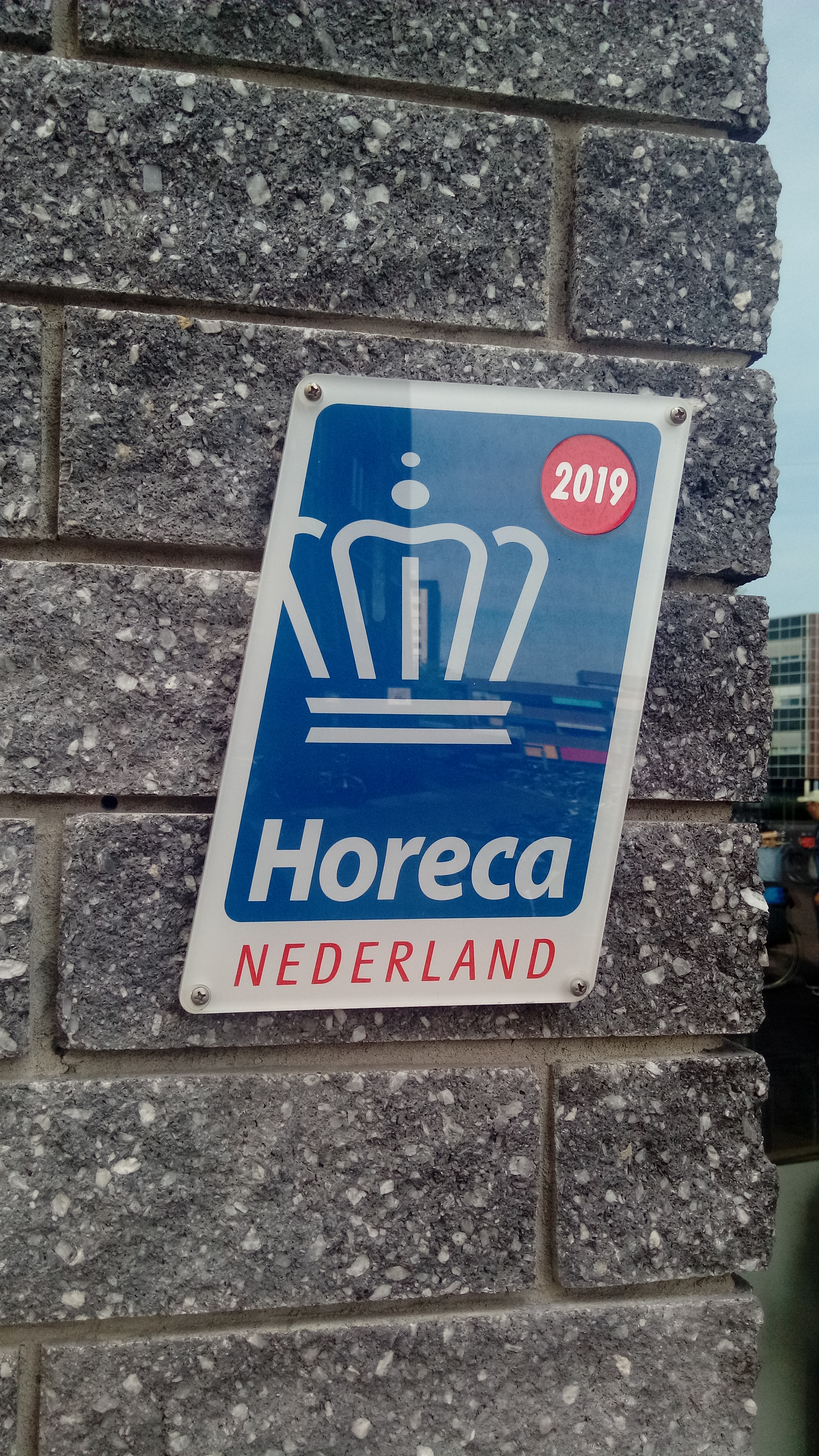 A sign indicating that this establishment is associated with the Koninklijke Horeca Nederland employers' organisation in the Drenthic capital city of Assen.